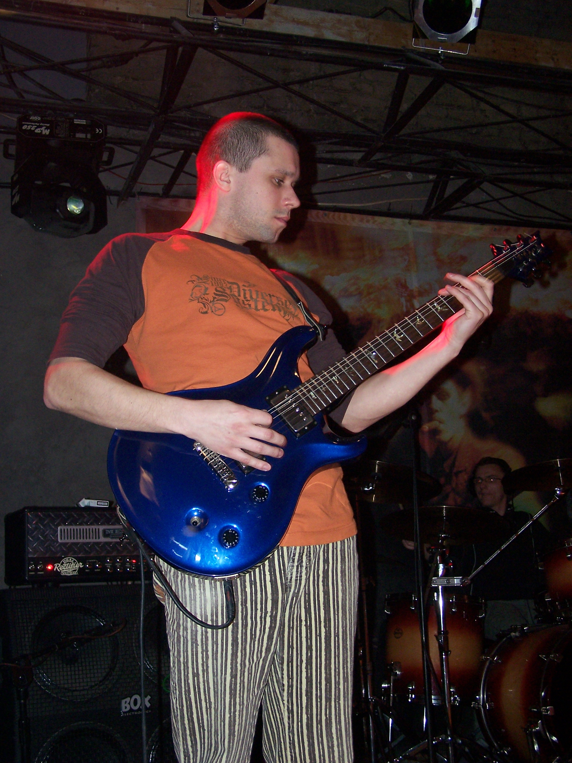 Dominik Witczak from polish rock band Coma.